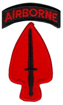 United States Army Special Operations Command (USASOC); Fort Bragg